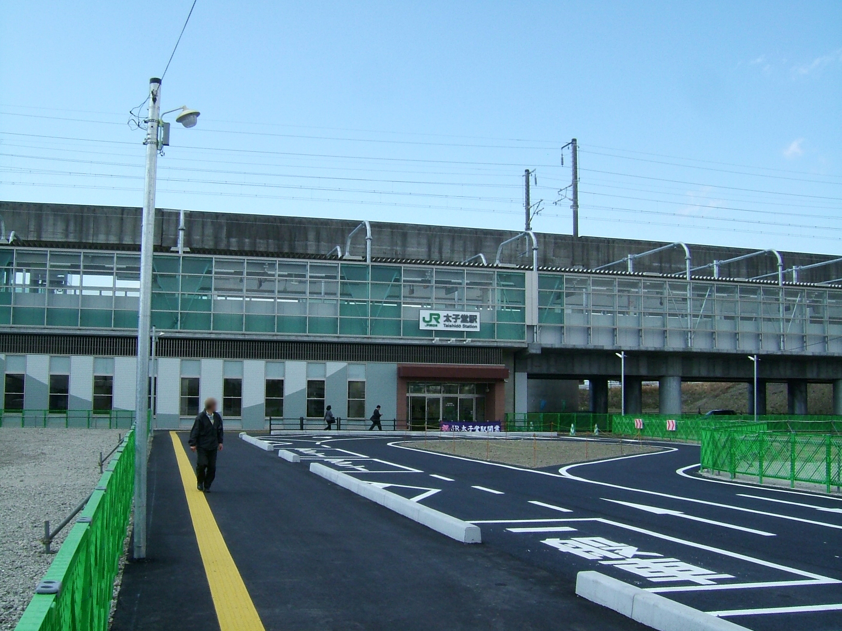 The entrance to Taishido Station on the Tohoku Main Line